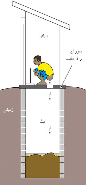 Schematic of a simple pit latrine